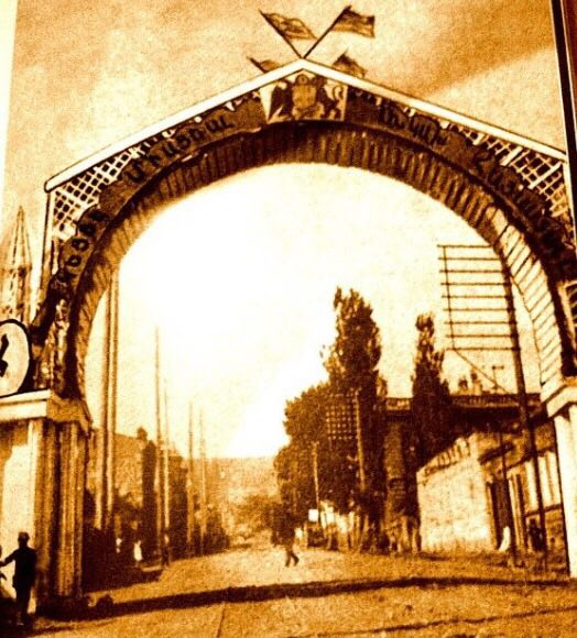 One of the Triumphal archs on Abovyan street, Yerevan, 1920.